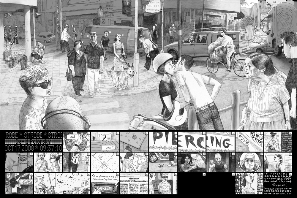 Illustration by David Polonsky